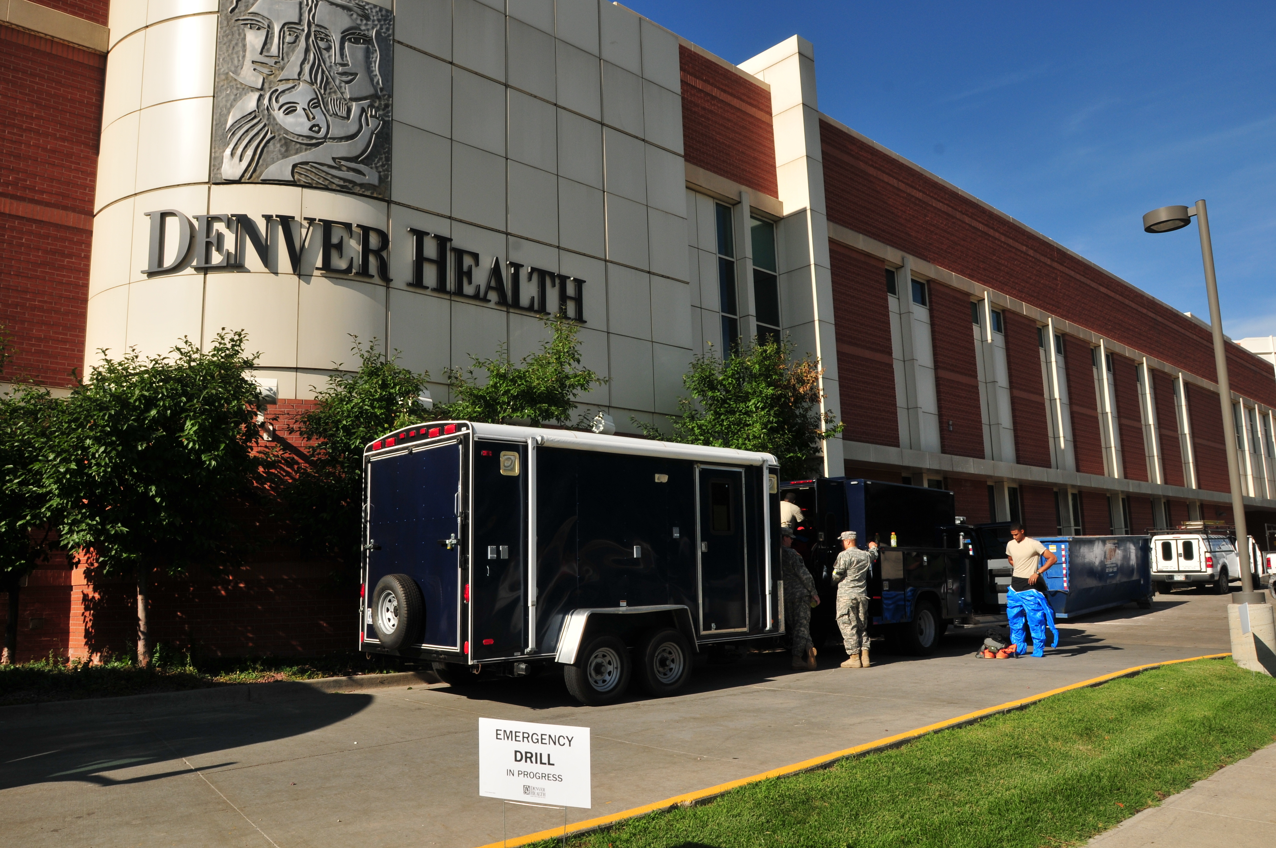 U.S. soldiers from the 92nd Civil Support Team don protective gear while supporting Denver Health's Emergency Department during a Vigilant Guard exercise where patients have to be decontaminated before entering the hospital in Denver, Colo., July 23, 2013. The Vigilant Guard exercise is a weeklong exercise full of scenarios based on wildfires, tornadoes, air craft accidents, hazmat response, search and rescue, triage, medevac and other emergency-response measures. The training and experience gained from this exercise will provide the Colorado National Guard and supporting military units an opportunity to improve cooperation and operational relationships with their local, state, private sector, non-governmental organizations and federal partners. (U.S. Air National Guard photo by Tech. Sgt. Wolfram M. Stumpf/Released)